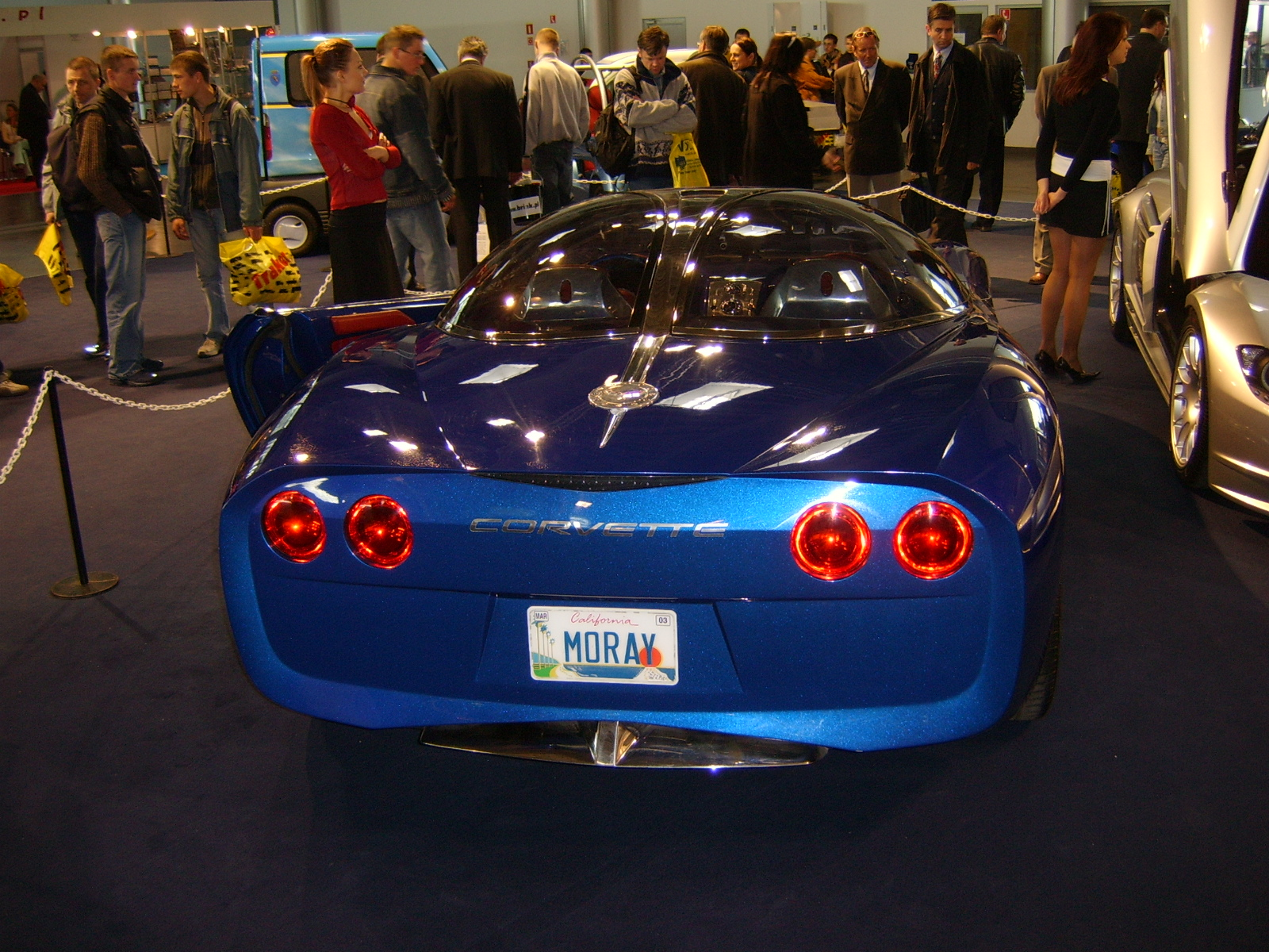 Corvette Moray - Poznan International Fair '05